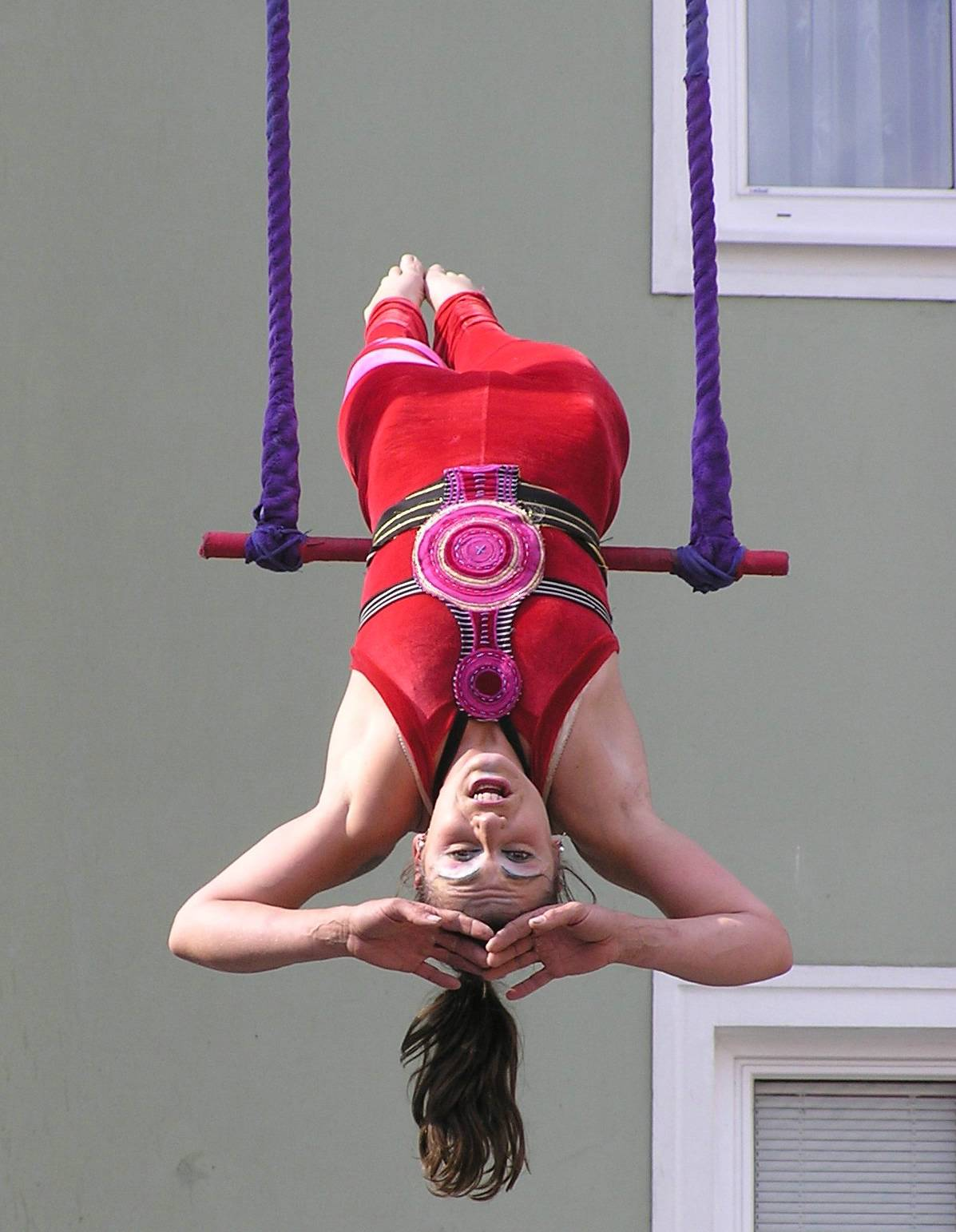 Close-up of Theaker von Ziarno, trapeze artist from Fremantle, Australia, at the Pflasterspektakel in Linz, Austria, 22 July 2005